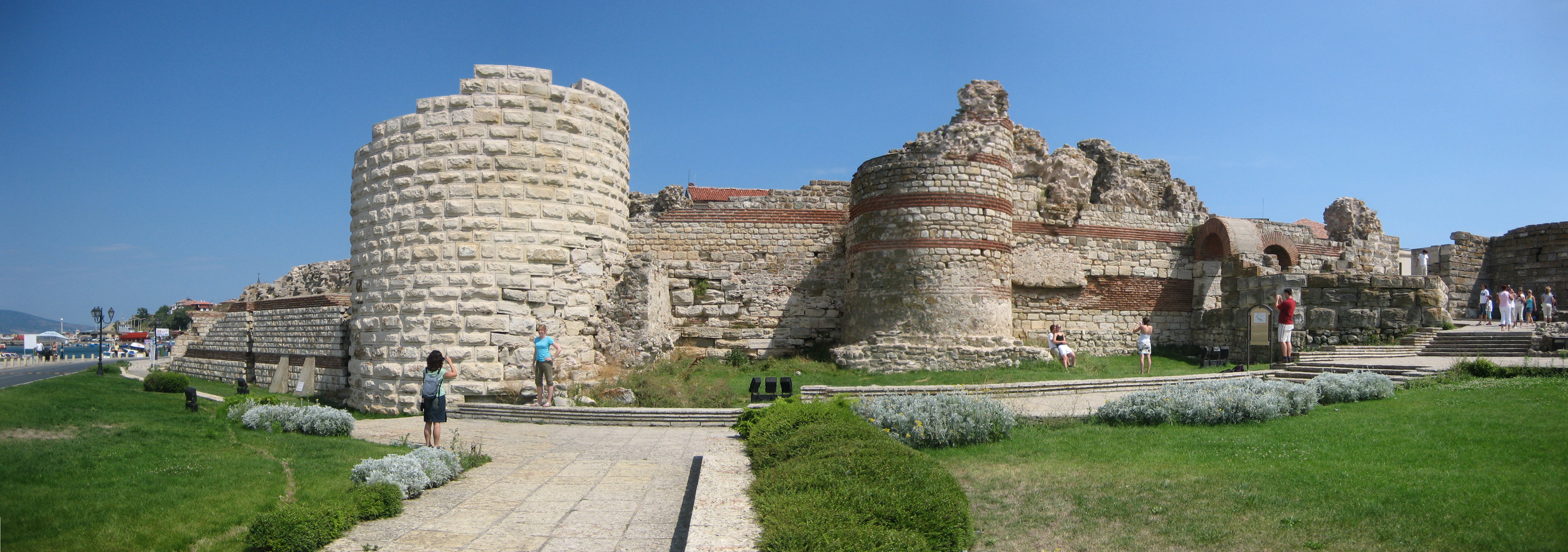 Nesebar city walls